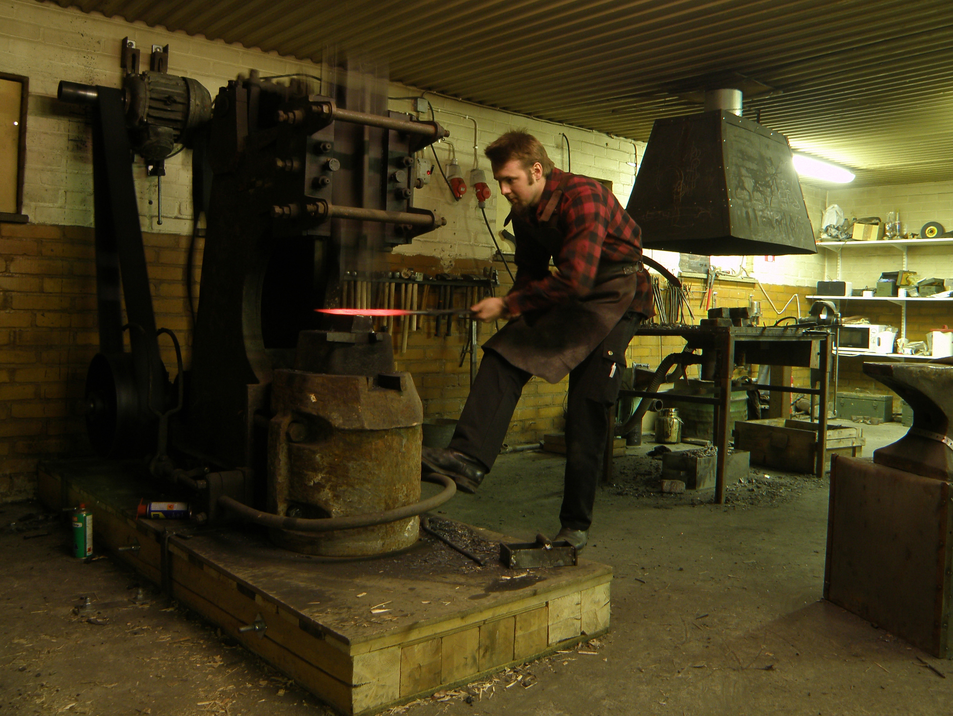 Finnish blacksmith forging with Ajax 2 powerhammer, or machine hammer.